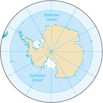 Map of the Antarctic Ocean (with German Labels)